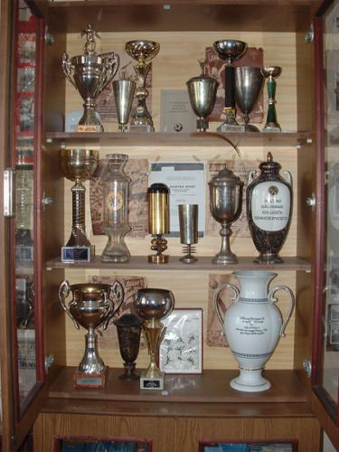 One of example from beauty collection from main saloon